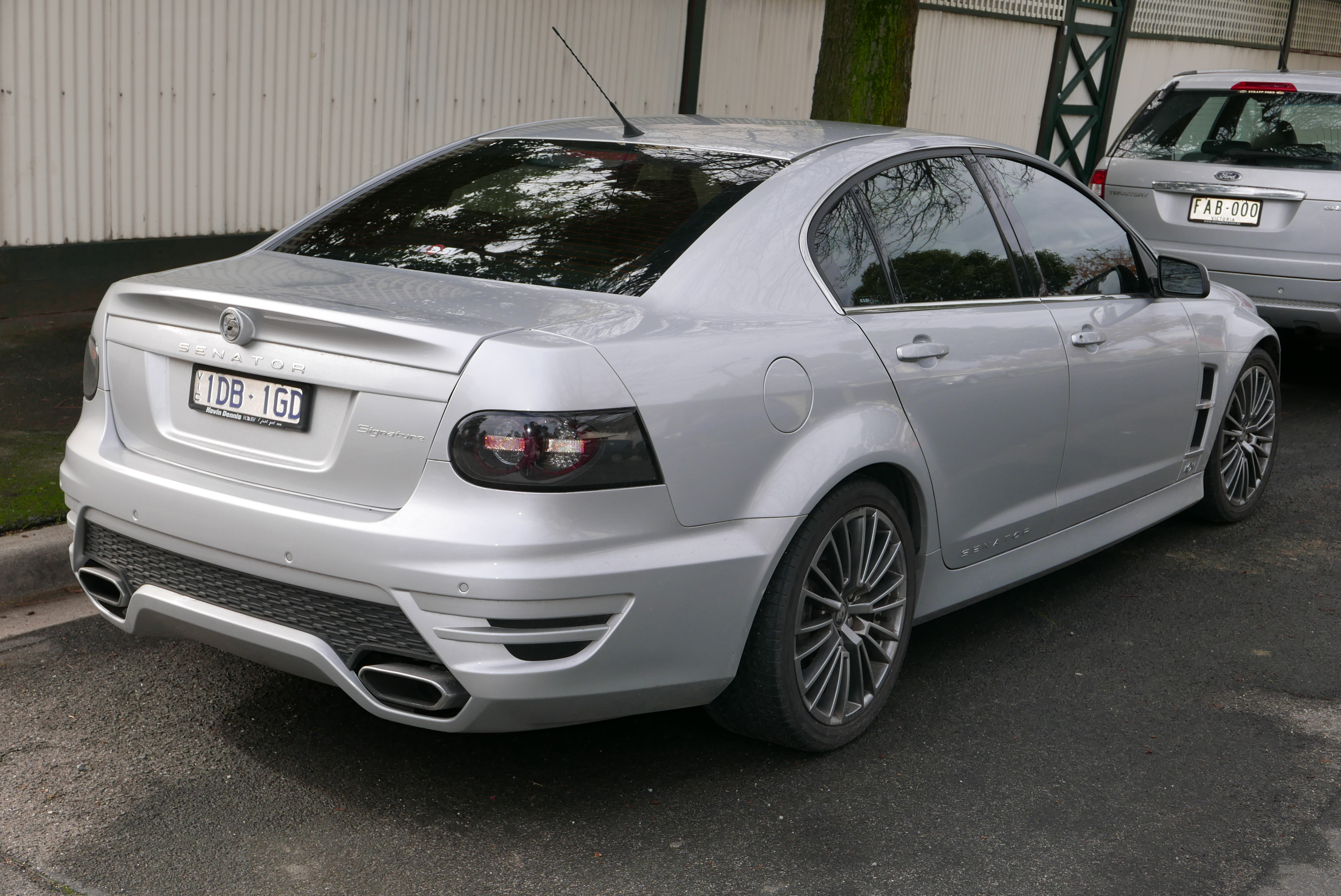 2010 HSV Senator (E Series 2 MY10) Signature sedan. Photographed in Hawthorn, Victoria, Australia. Vehicle registration enquiry resultsJurisdictionVictoriaRegistration1DB1GDChassis code6G1EX5EW9AL444484Engine codeAA7100130053Compliance date2010-03Year of manufacture2010